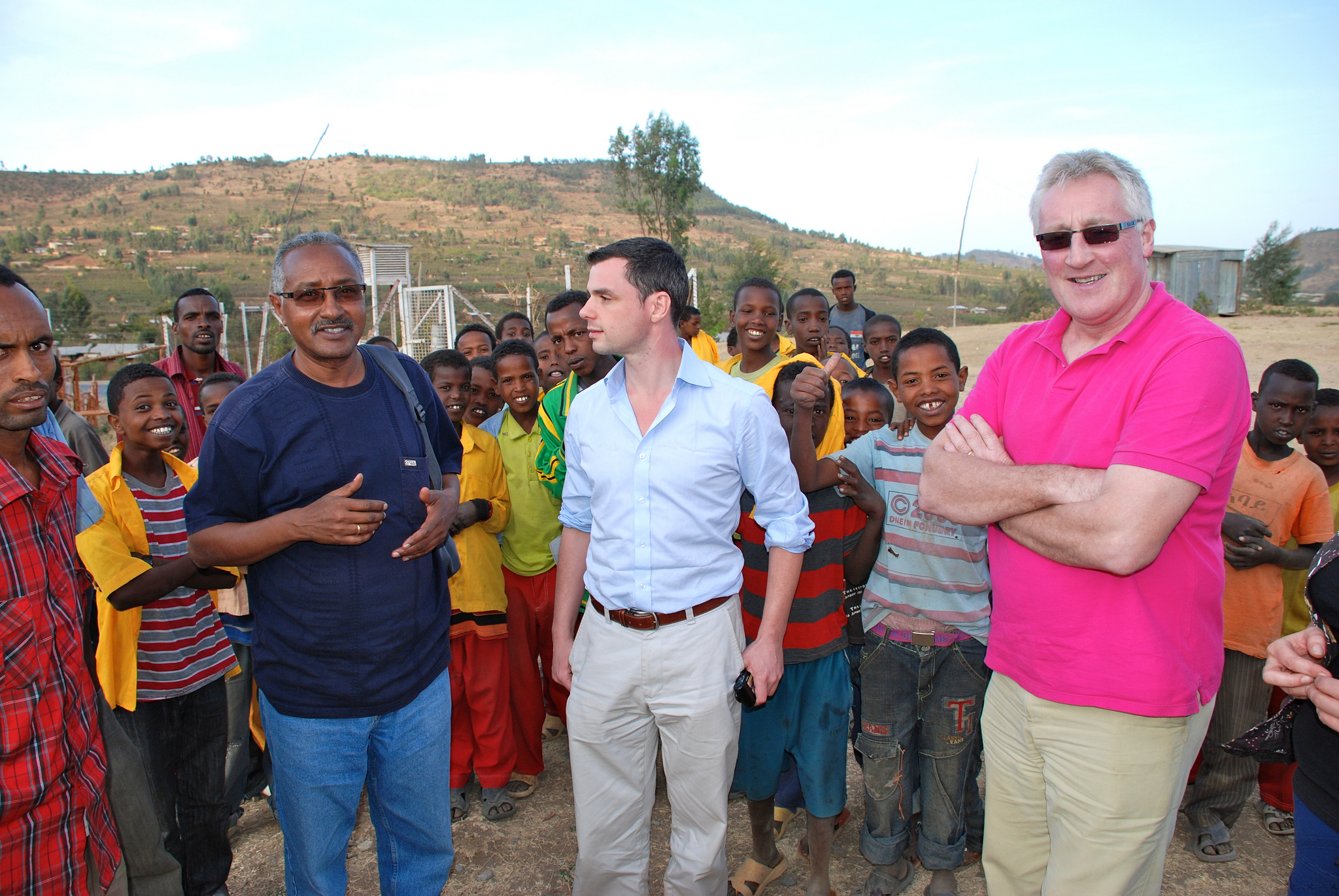 Pat Spillane at Dengogo School with vso volunteer Dr. Negussie Araye who founded the school some 30 years ago.